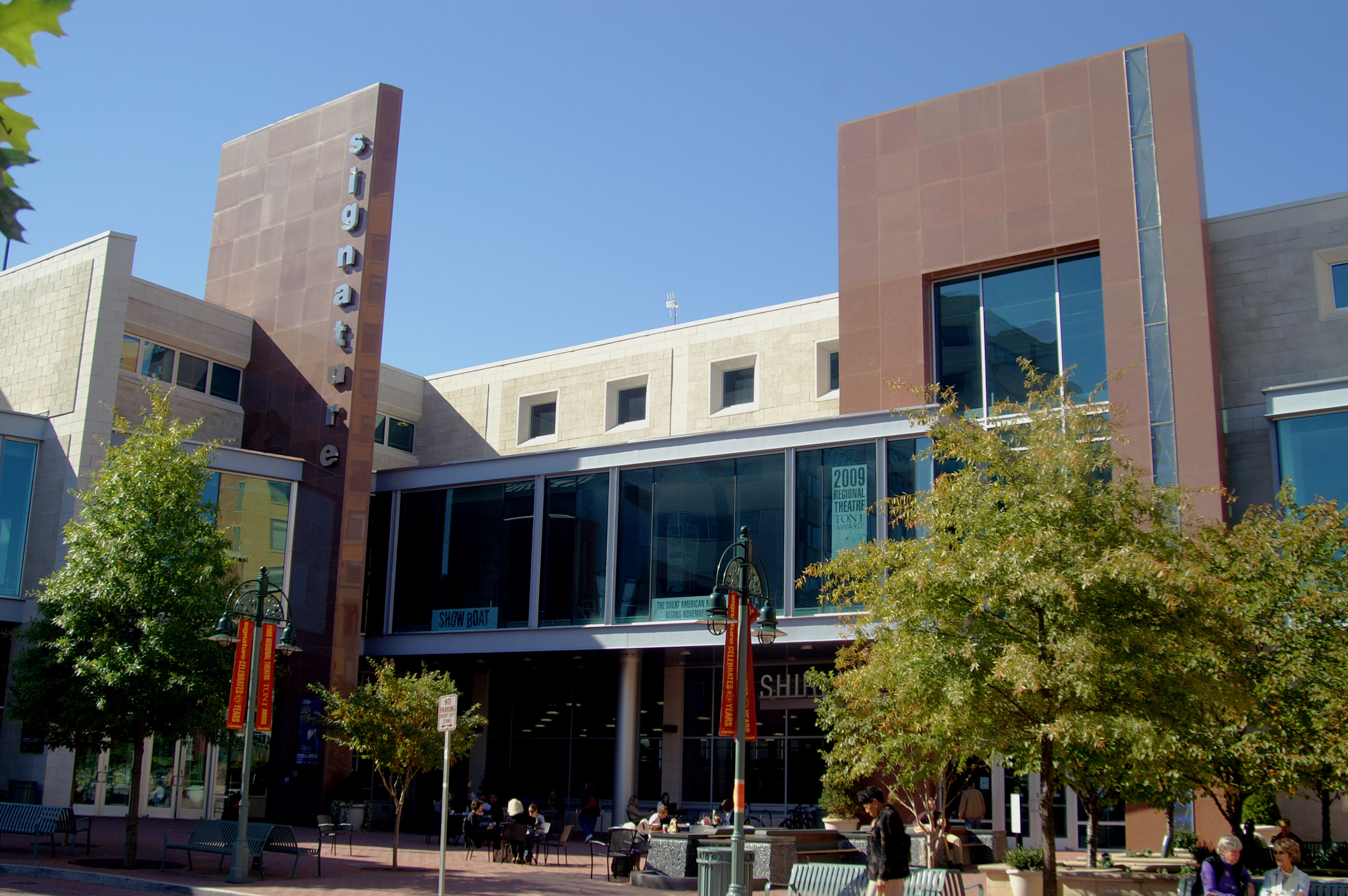 An exterior landscape view of the new Signature Theatre above the Shirlington Library in Arlington Virginia